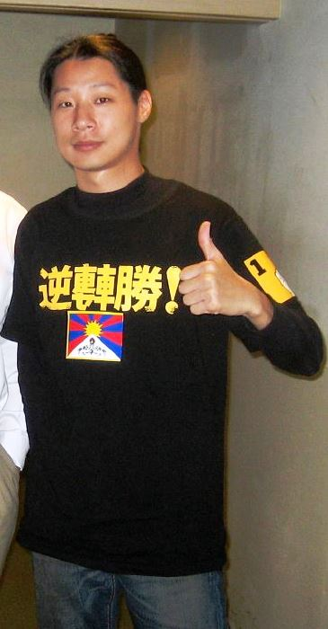 in 2008